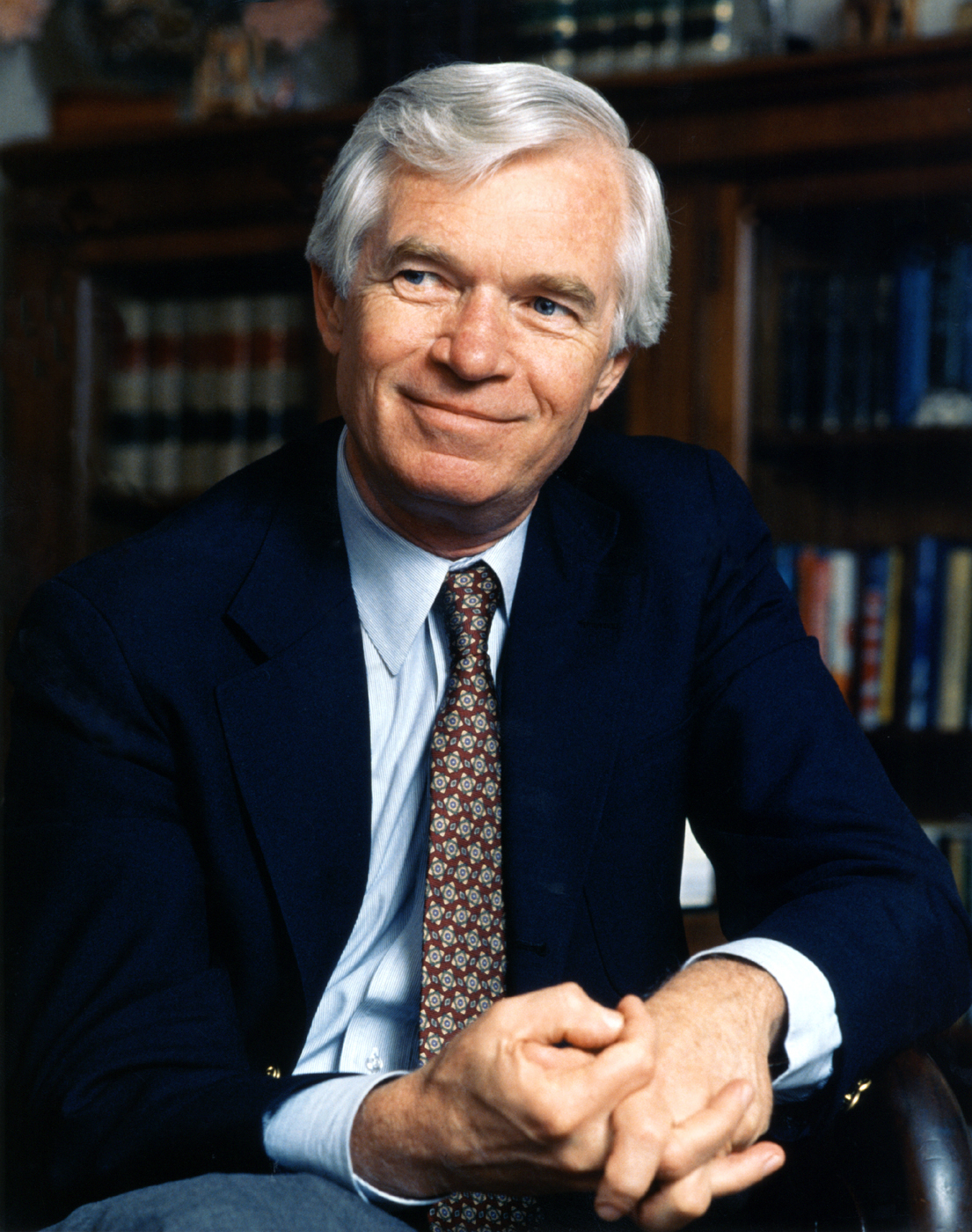 Thad Cochran, U.S. Senator from Mississippi.